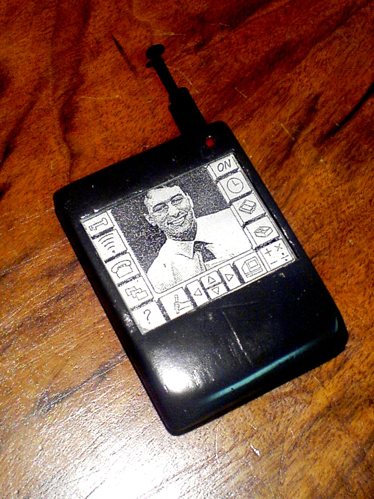 Photograph of prototype received at NMAH